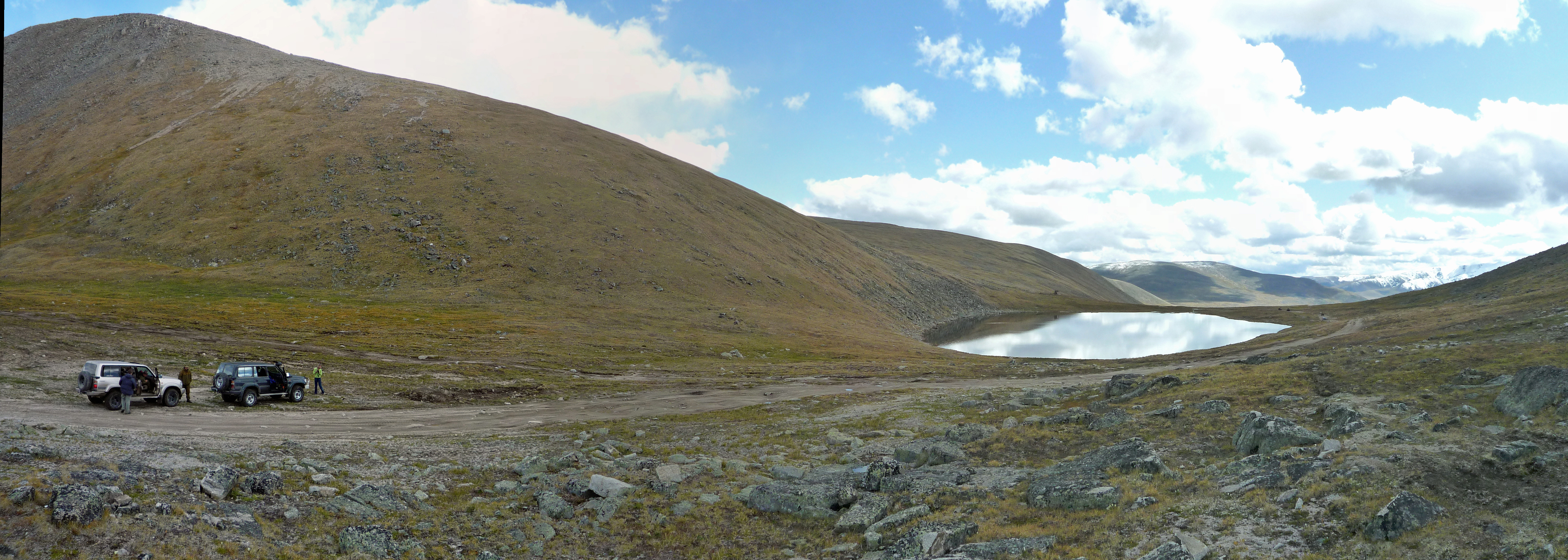 Lake 2900m on Teplyi Kliych pass